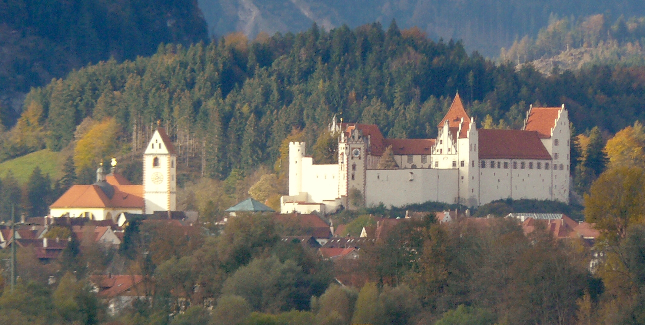 former monastery (left) and castle (right), Füssen